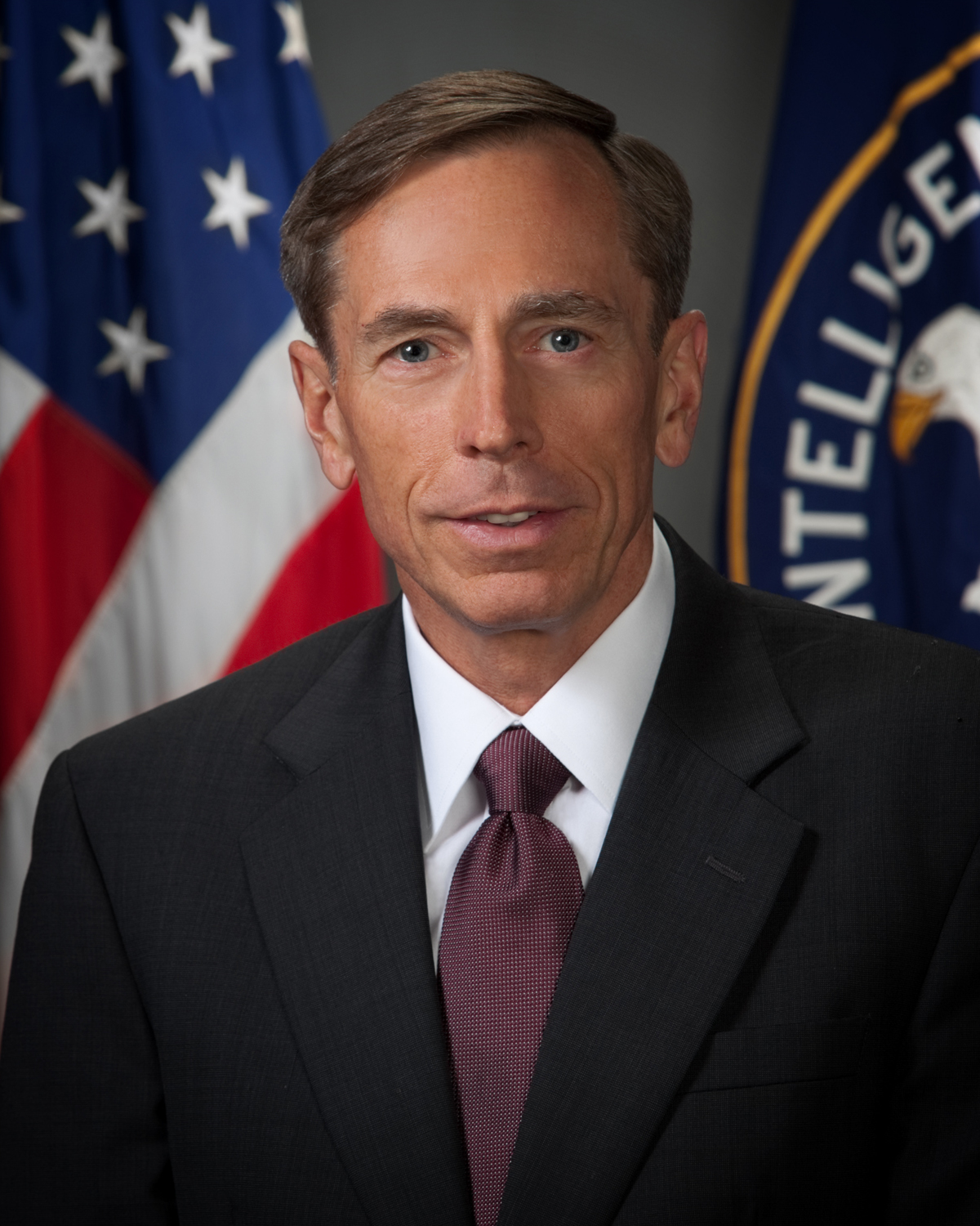 Official photo of David Petraeus, Director of the Central Intelligence Agency